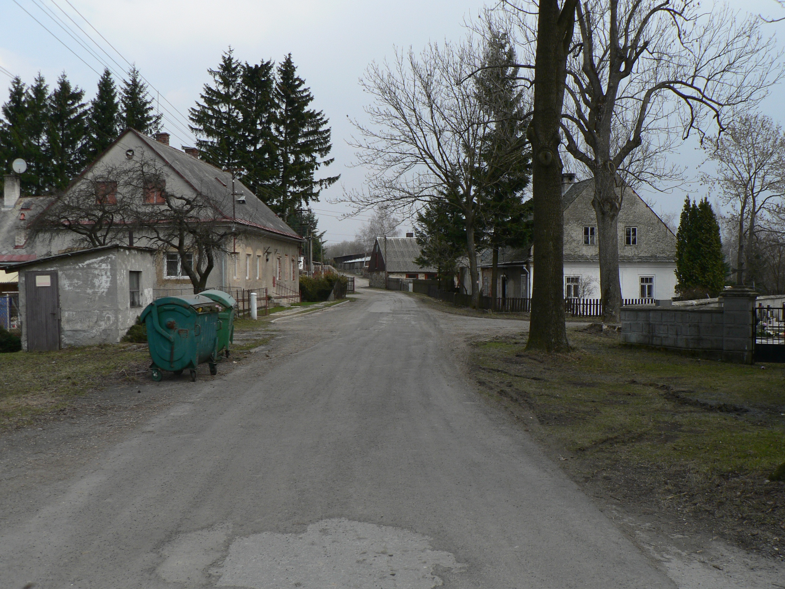 Village Tvrdkov, Bruntal district, Czech republic